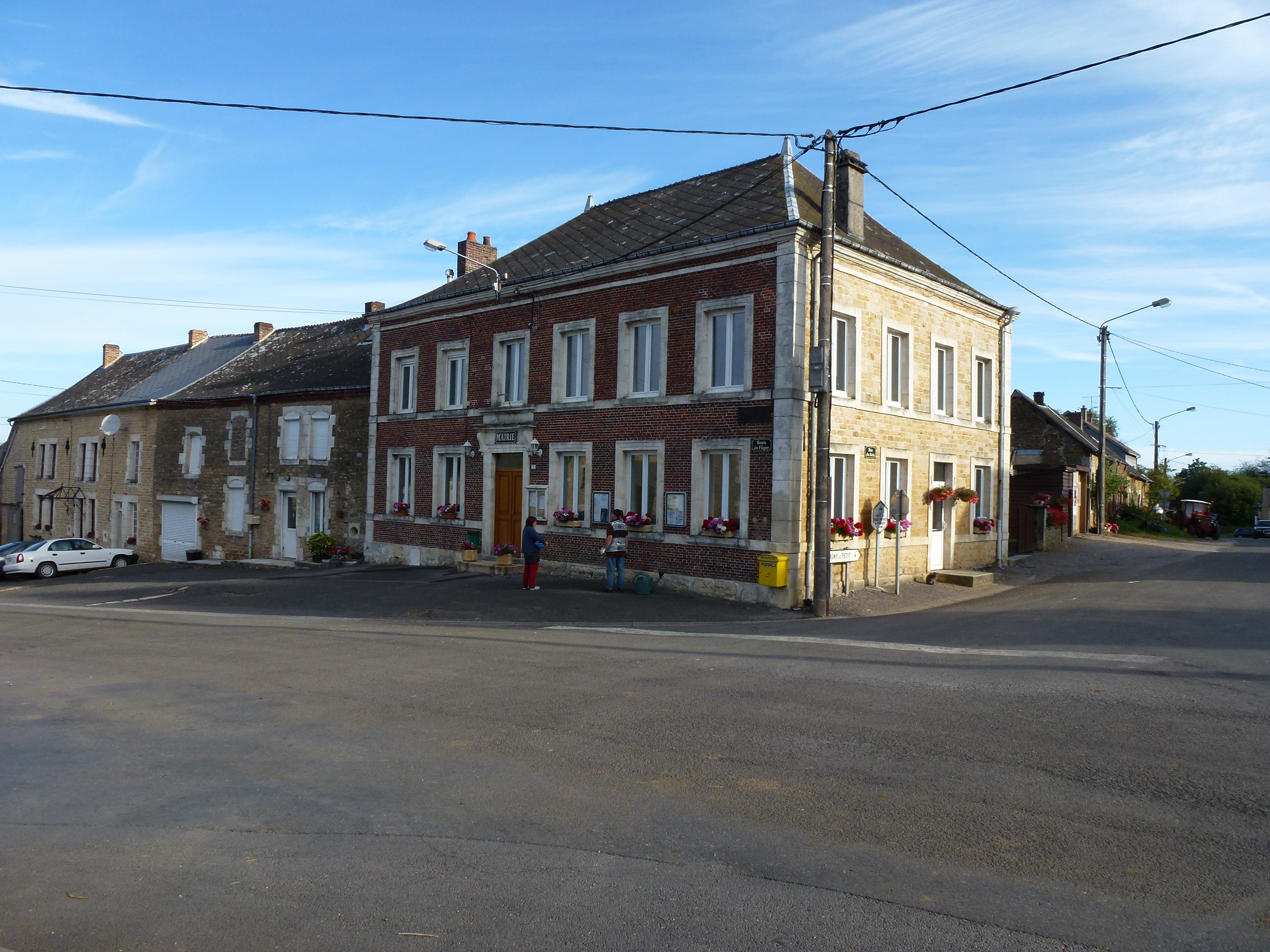 Tarzy (Ardennes) mairie